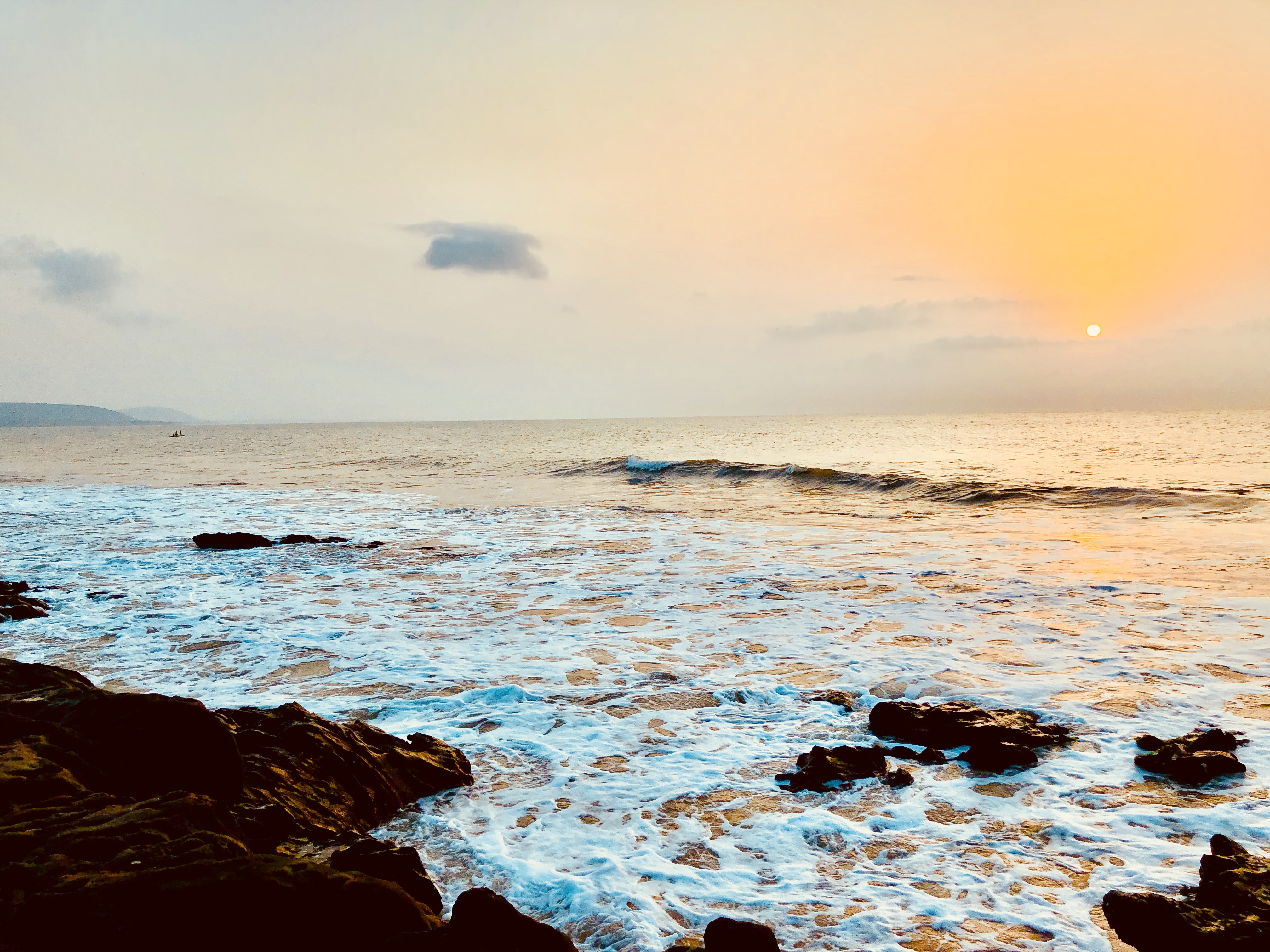 Sunrise near Thotlakonda beach